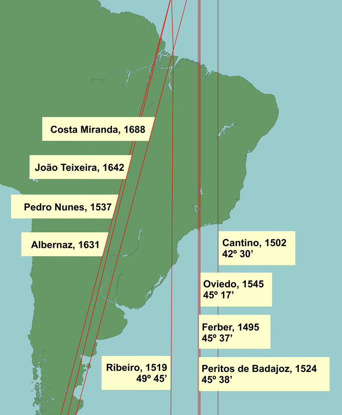 The Meridian of Tordesilhas according to different geographers